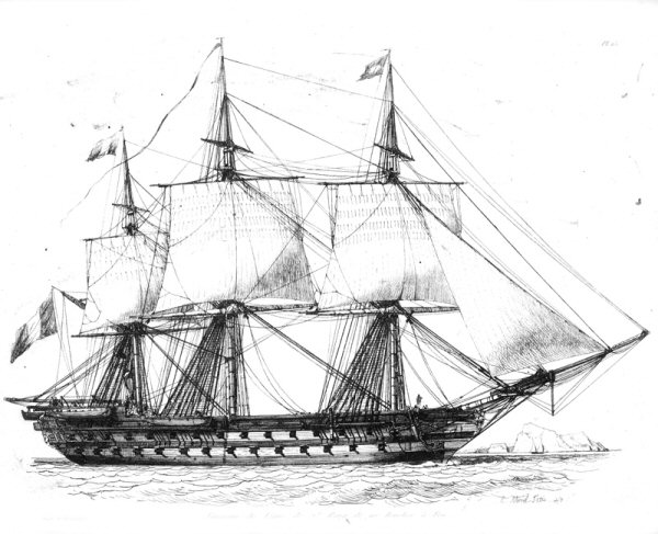 2nd rank, 90-gun ship of the line